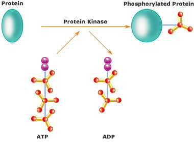 General scheme of kinase function